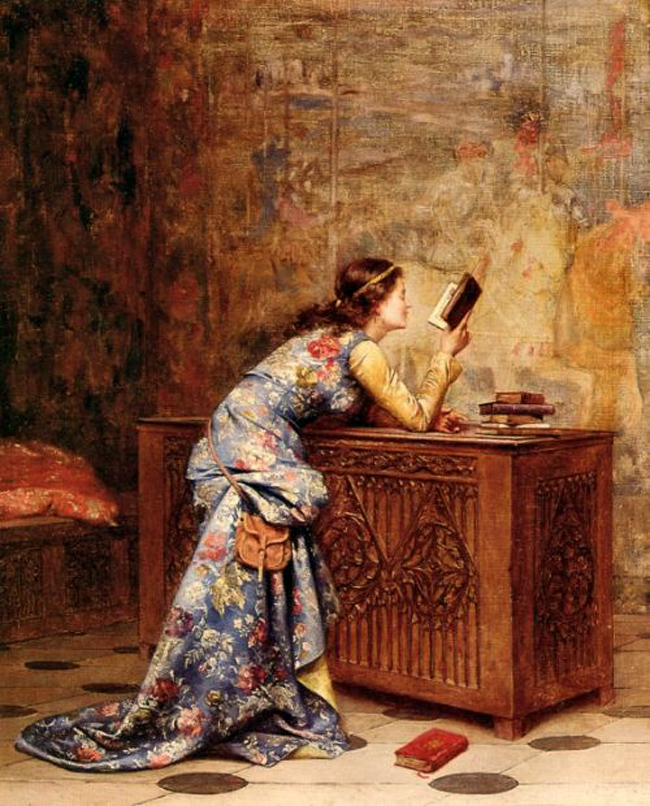 Captivated